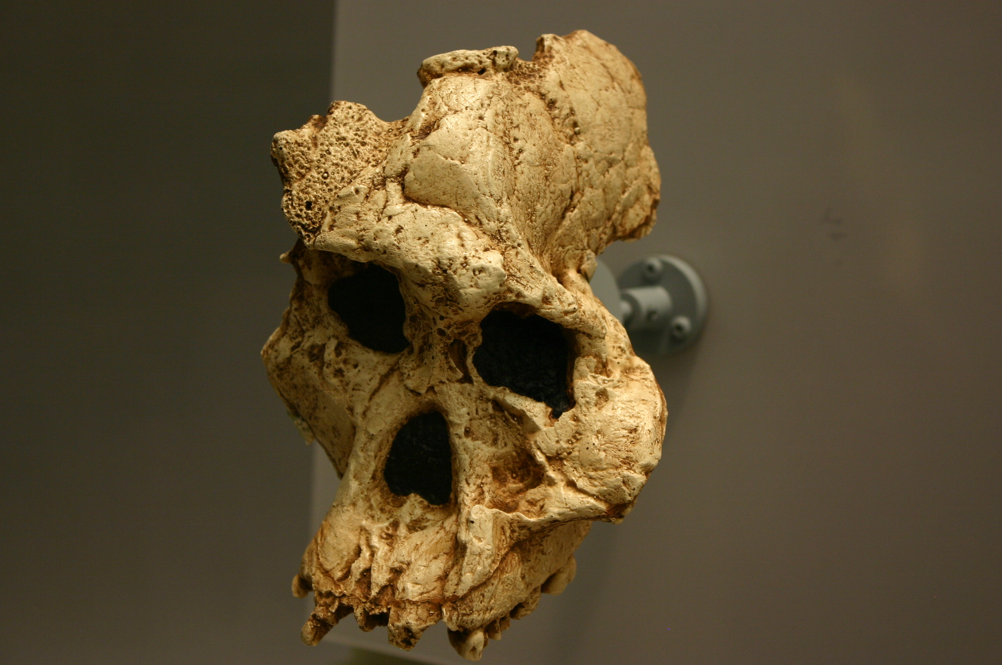 Taken at the David H. Koch Hall of Human Origins at the Smithsonian Natural History Museum.